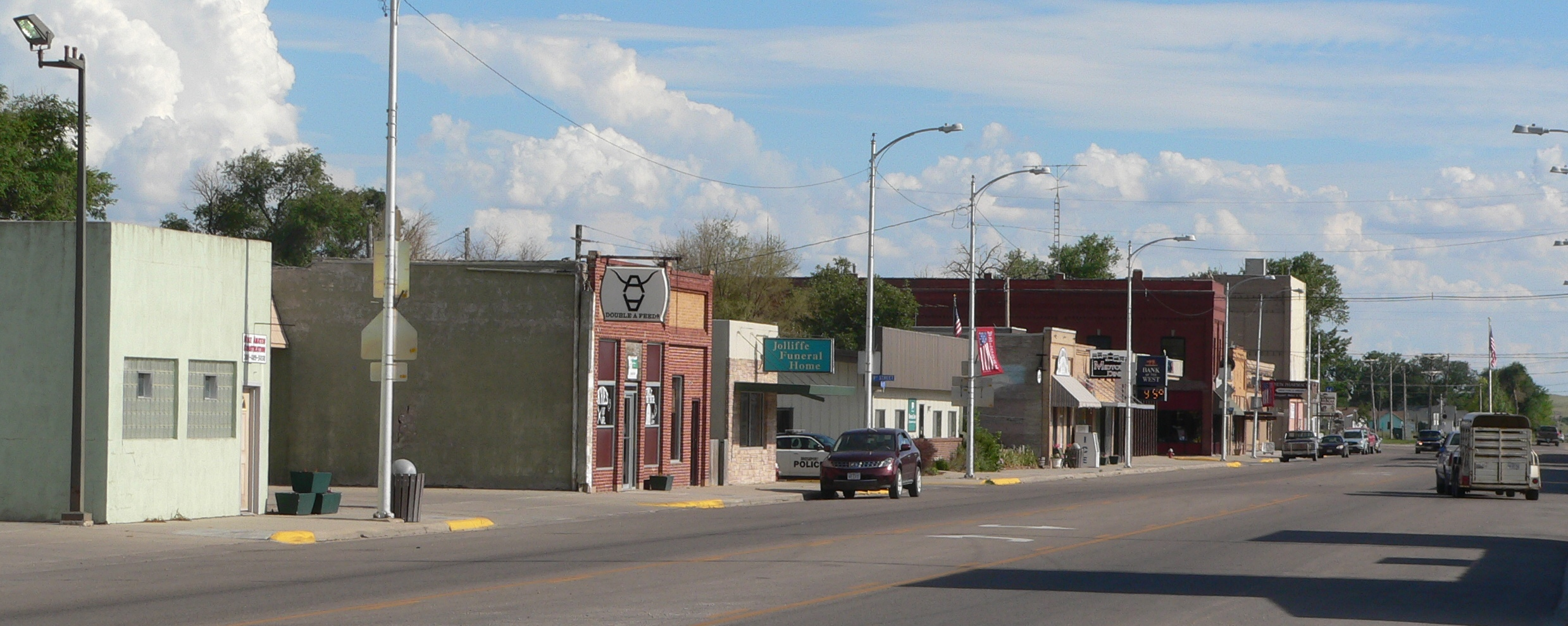 Downtown Bridgeport, Nebraska: east side of Main Street, looking southeast from about 8th Street.